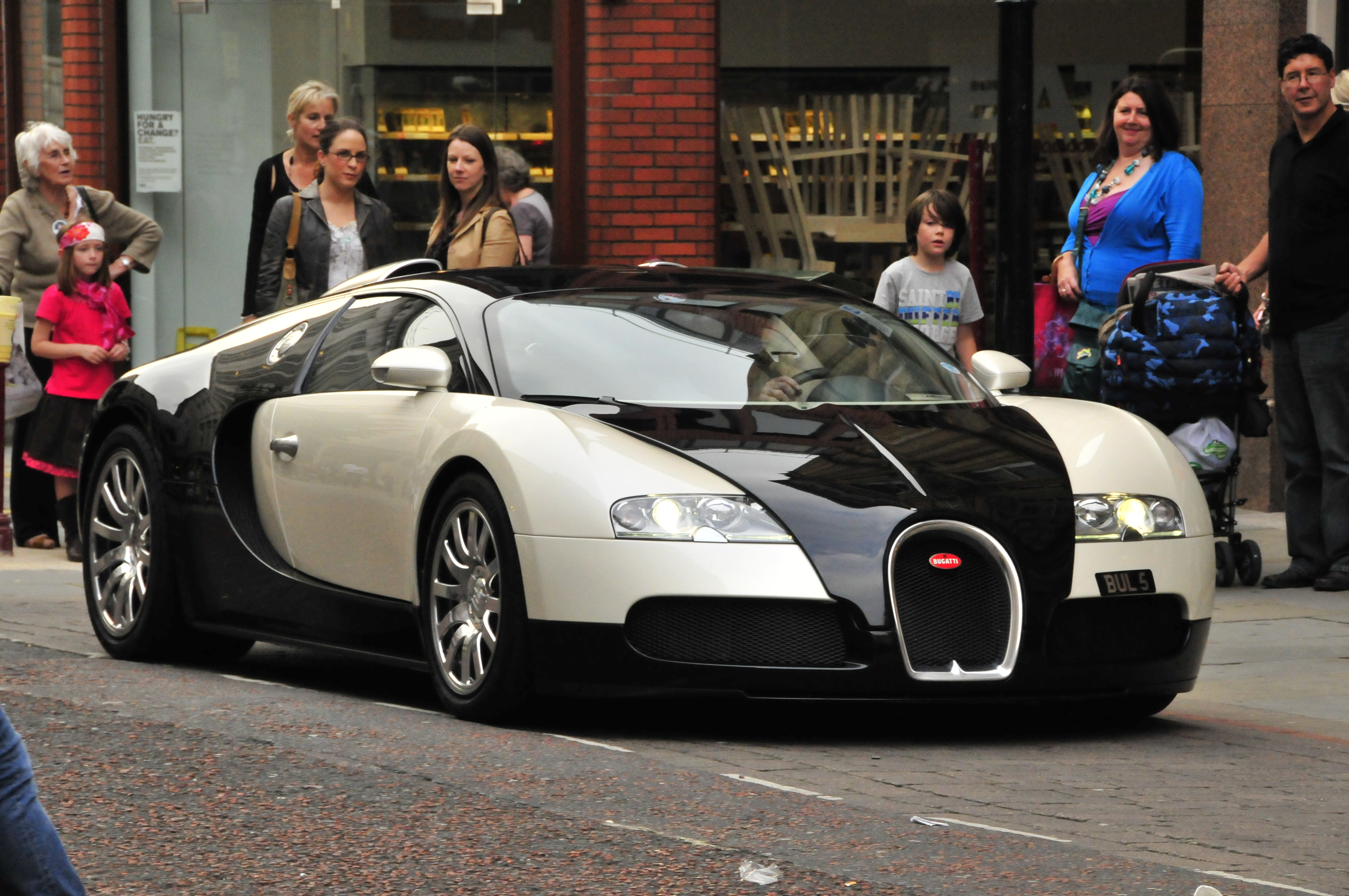 Bugatti Veyron Manchester - crowd formed expecting Beckham